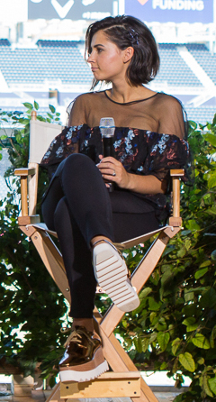 Cast & crew at the Power Rangers discussion Camp Conival offsite at Petco Park during San Diego Comic-Con 2016. From left: Dan Casey (moderator), Dean Israelite, Dacre Montgomery, RJ Cyler, Naomi Scott, Becky G and Ludi Lin